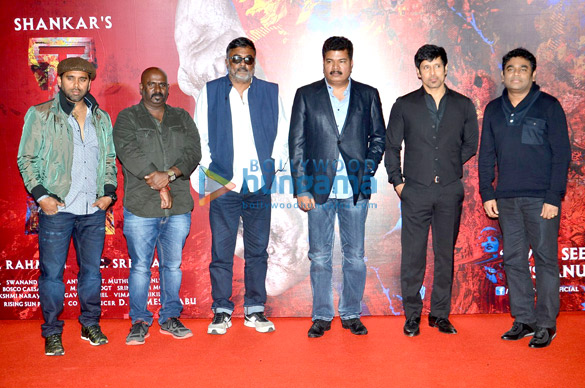 Cinematographer PC Sreeram, director S Shankar, actor Vikram and composer A R Rahman unveil the first look of the film I to the media